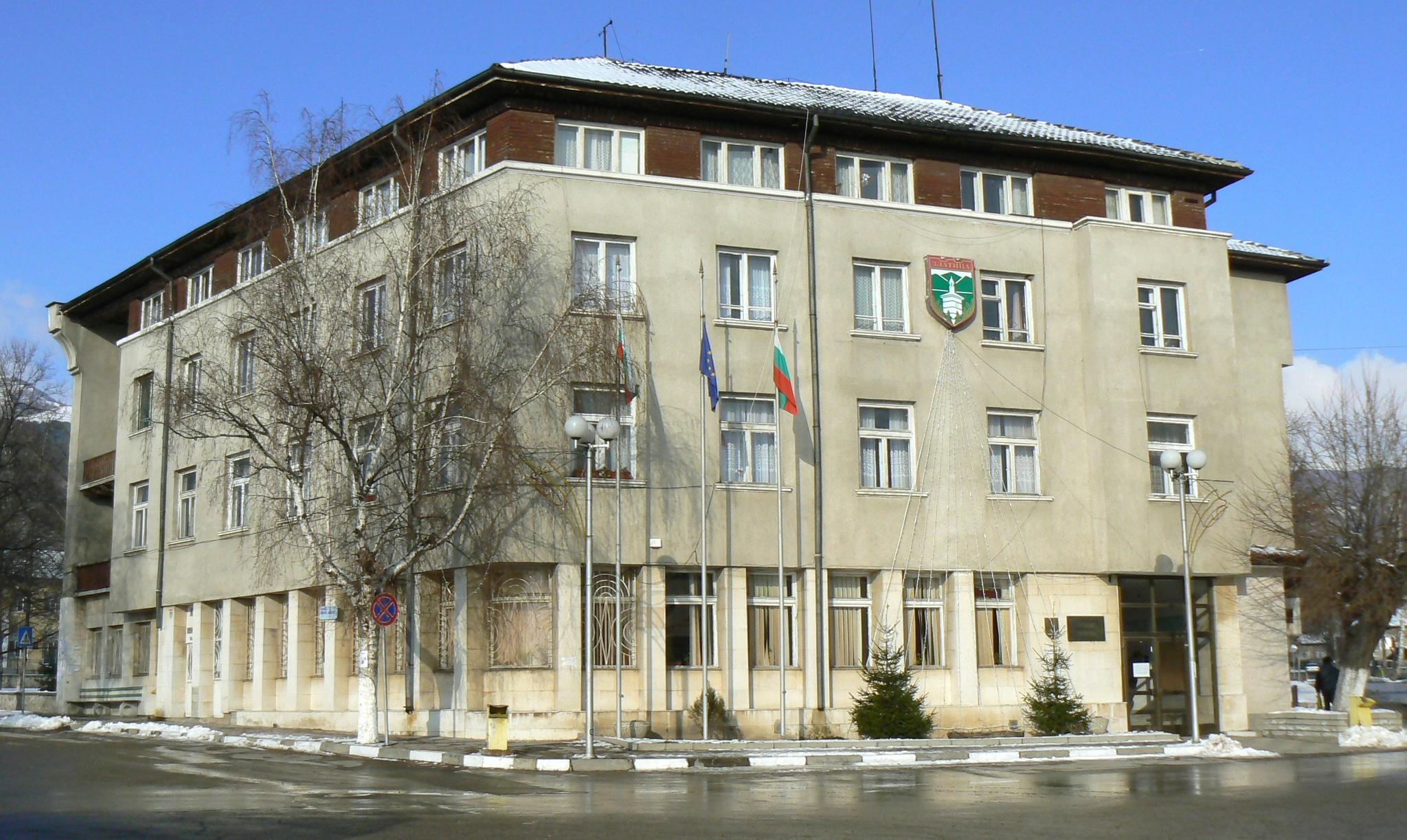 The building of Zlatitsa municipality in the town on Zlatitsa, Bulgaria